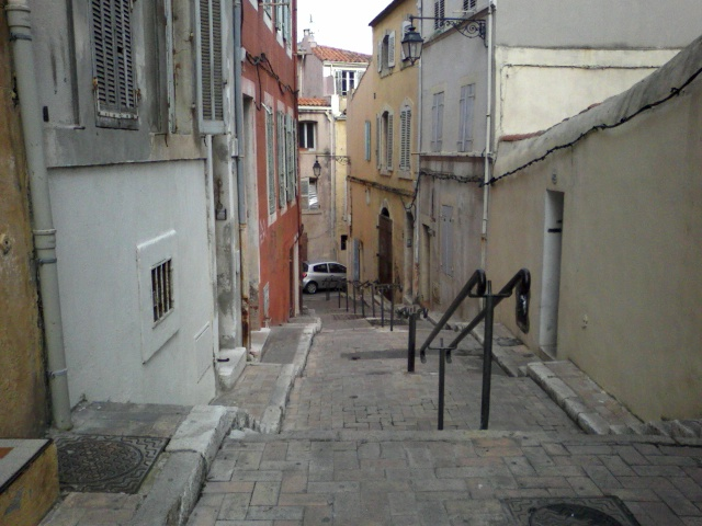 Rue des Moulins, le Panier, Marseille